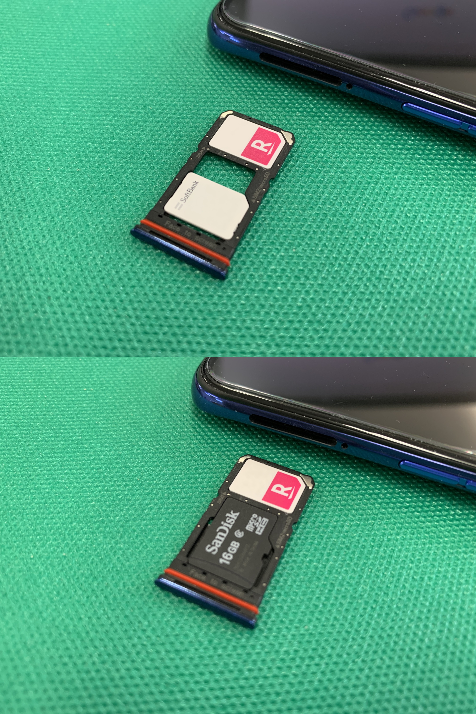 Dual SIM Dual VoLTE (DSDV)